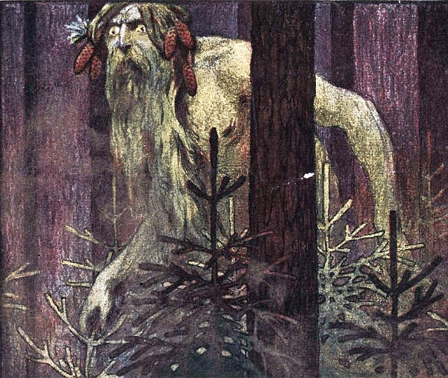 WITH cover of Magazine’s «Leshy» № 1-1906